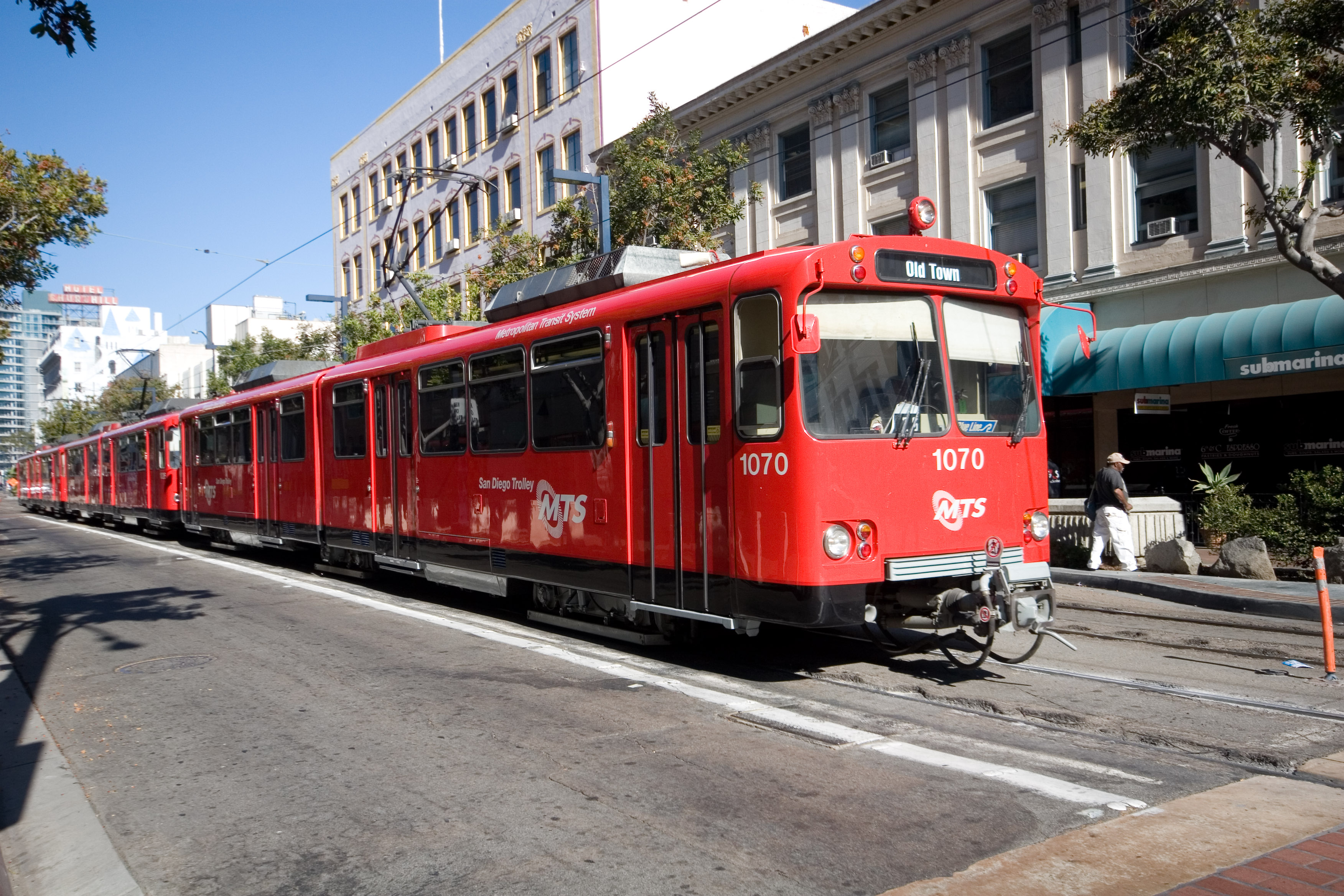 A San Diego U2 trolley in the newest color scheme.